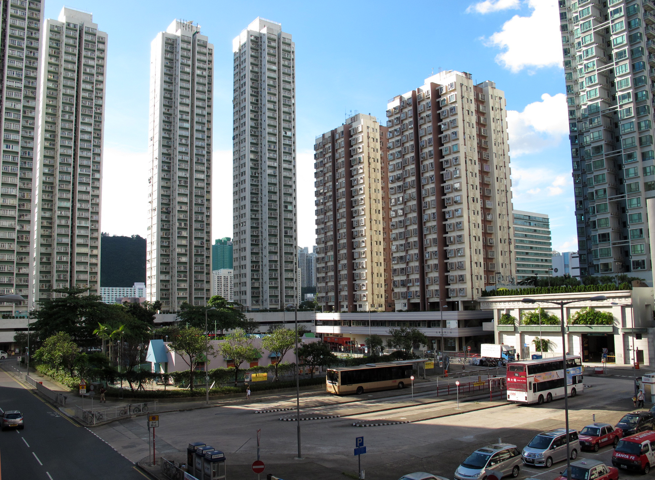 Shatin Wai Residents